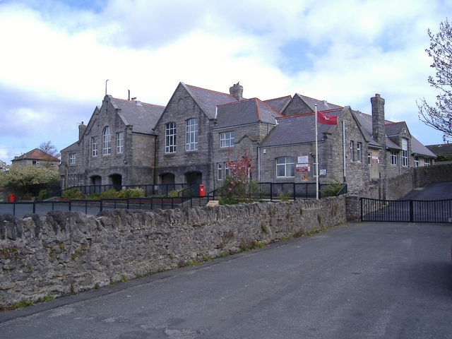 Victoria Road School, Castletown. First opened in 1895 as a boys school, now a primary school.